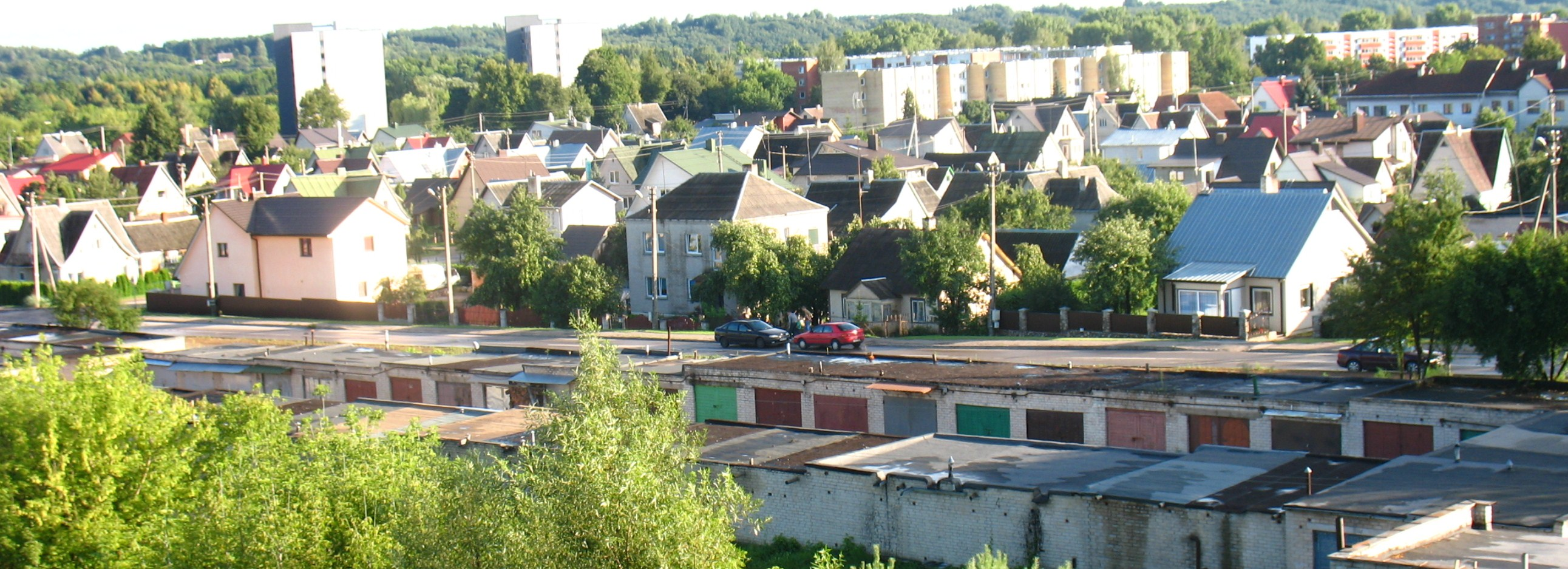 Paneriai, Jonava